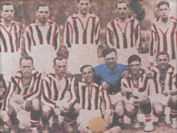 Olympiakos team line up somewhere between 1927 and 1929 (most possibly 1928)